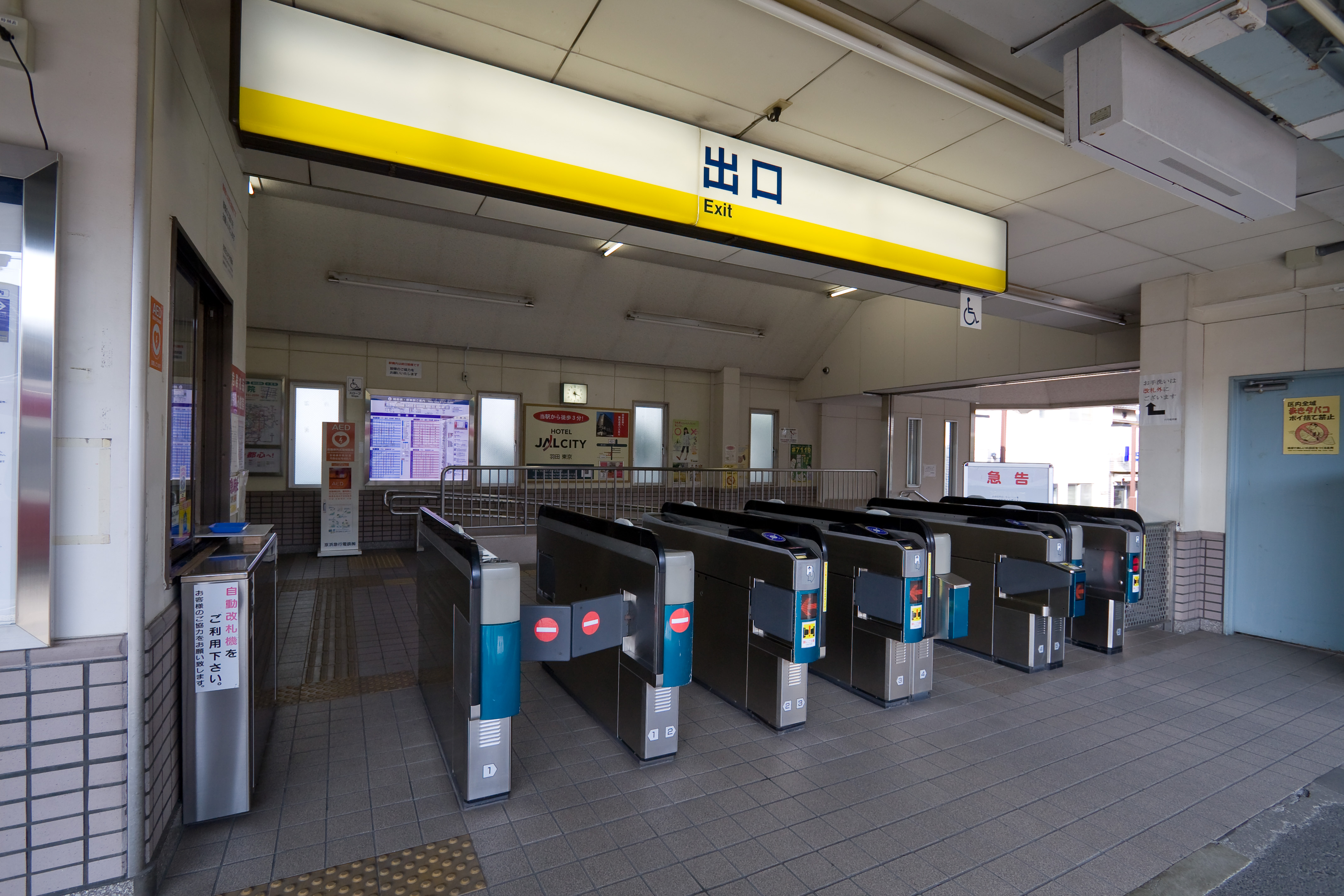 Anamoriinari Station Gates